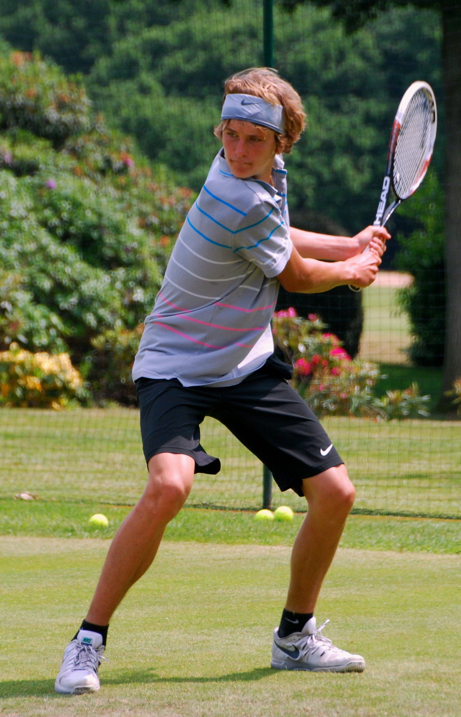 Runner-up in this year's French Open juniors - practising with Richard Gasquet at the Boodles, Stoke Park, 2013.